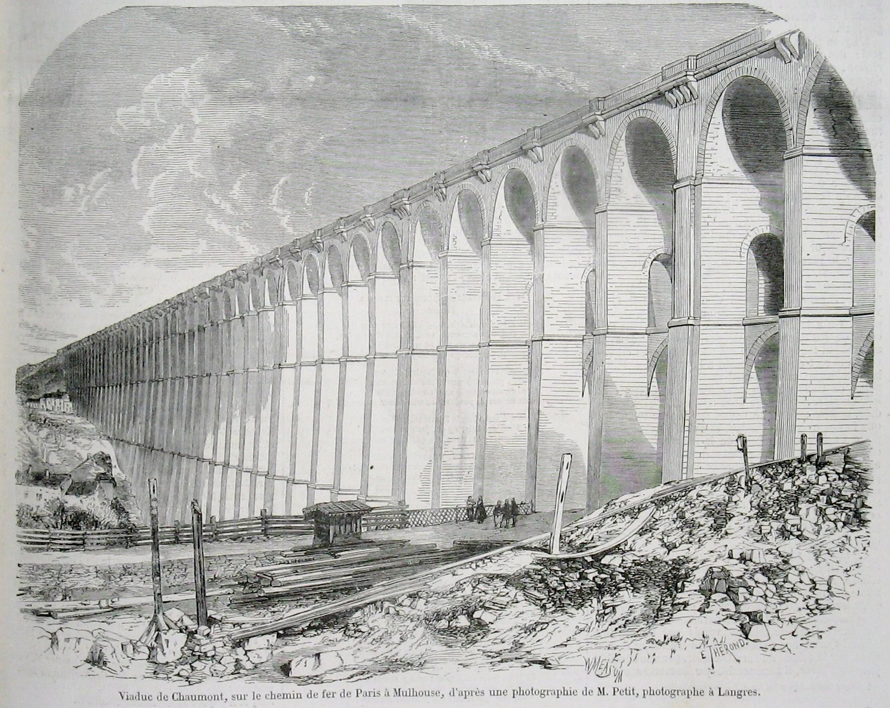 Illustration published as part of the article Fêtes de l'industrie. Inauguration du chemin de fer du Midi. Inauguration du chemin de fer de l'Ouest, Fulgence Girard, in Le Monde illustré, n°4, 09/05/1857. See full text Fêtes de l'industrie. Inauguration du chemin de fer du Midi. Inauguration du chemin de fer de l'Ouest.